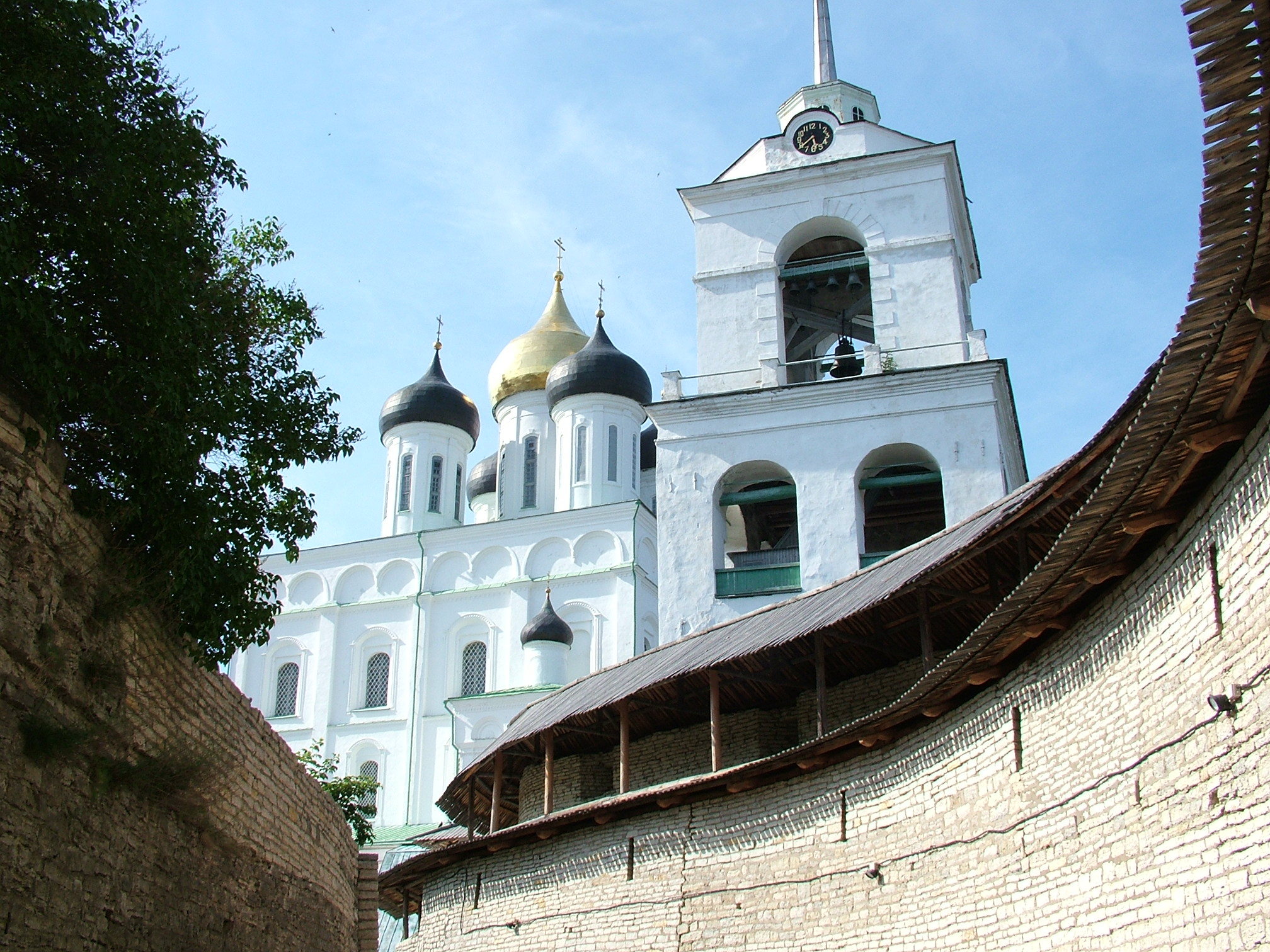 Trinity Cathedral in Pskov kremlin, Russia.